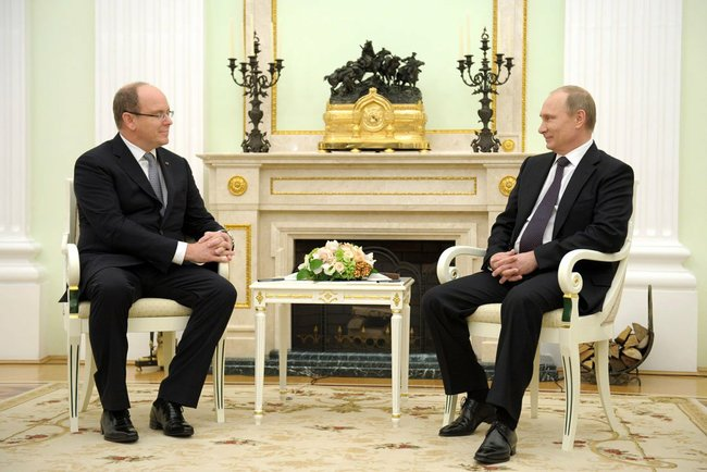 Albert II, Prince of Monaco with Vladimir Putin. Moscow, Kremlin. 4 oct 2013.